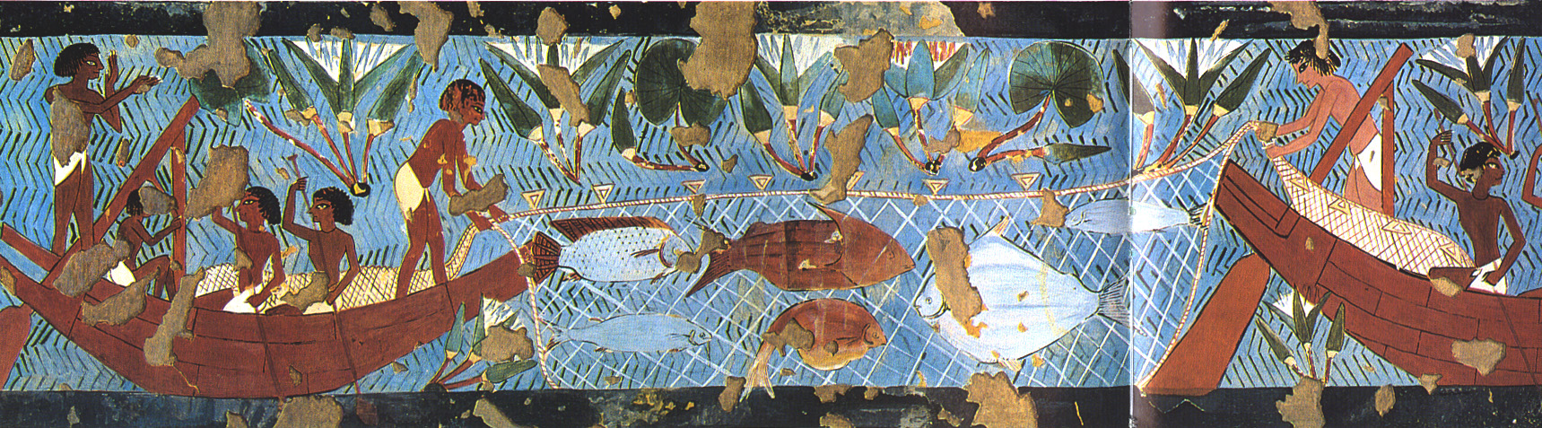 fishing and fowling, Facsimile, Ipuy (TT 217)